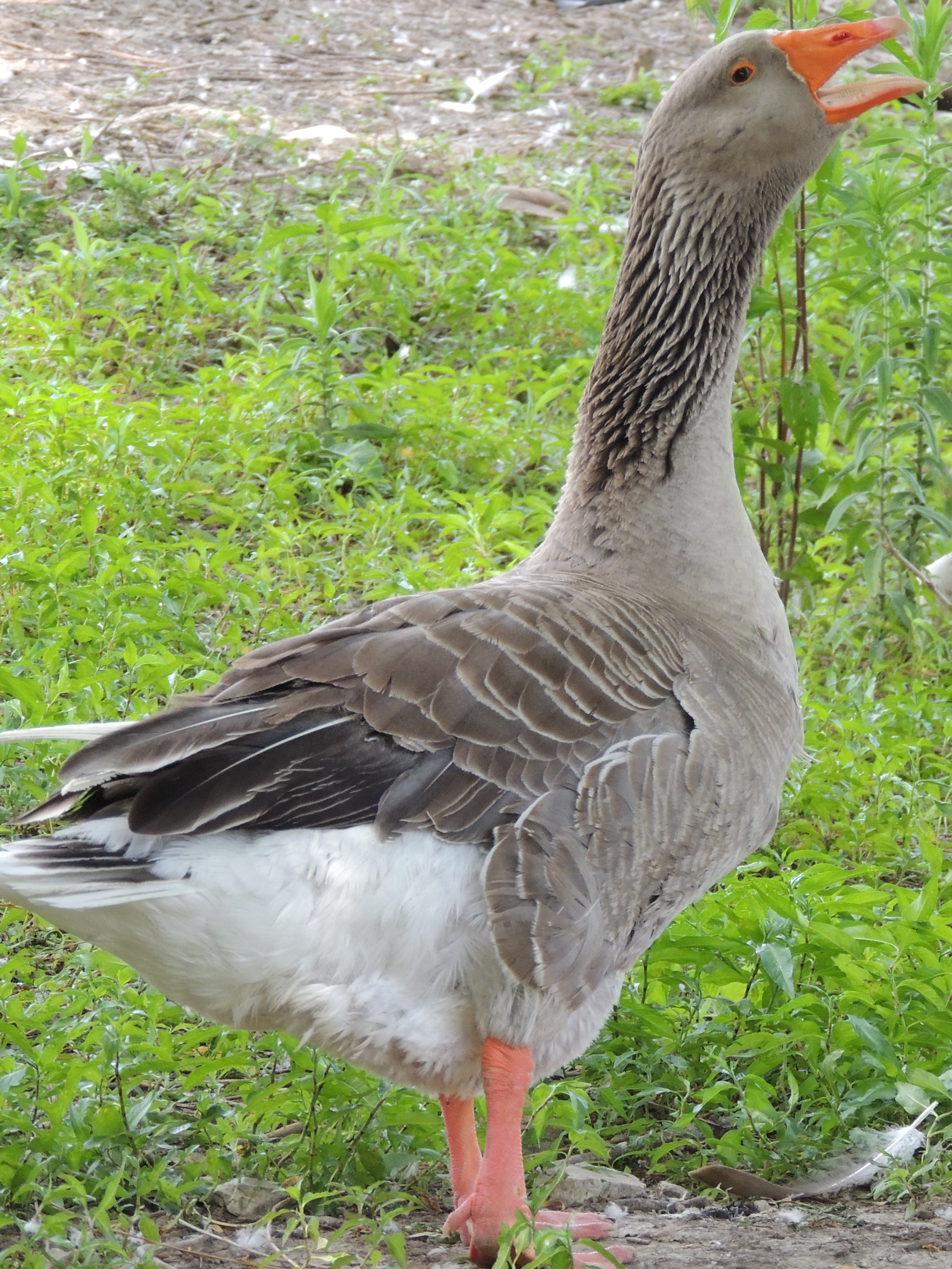 Taken at Niabi Zoo in Coal Valley Illinois